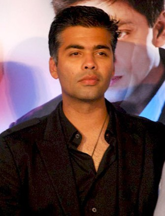 Indian filmmaker